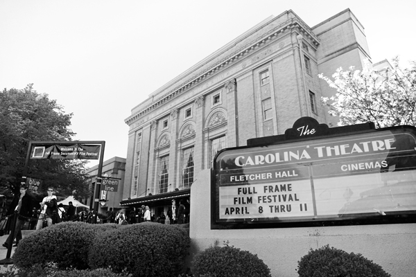 The Carolina Theatre in Durham, North Carolina is the main venue for the Full Frame Documentary Film Festival.